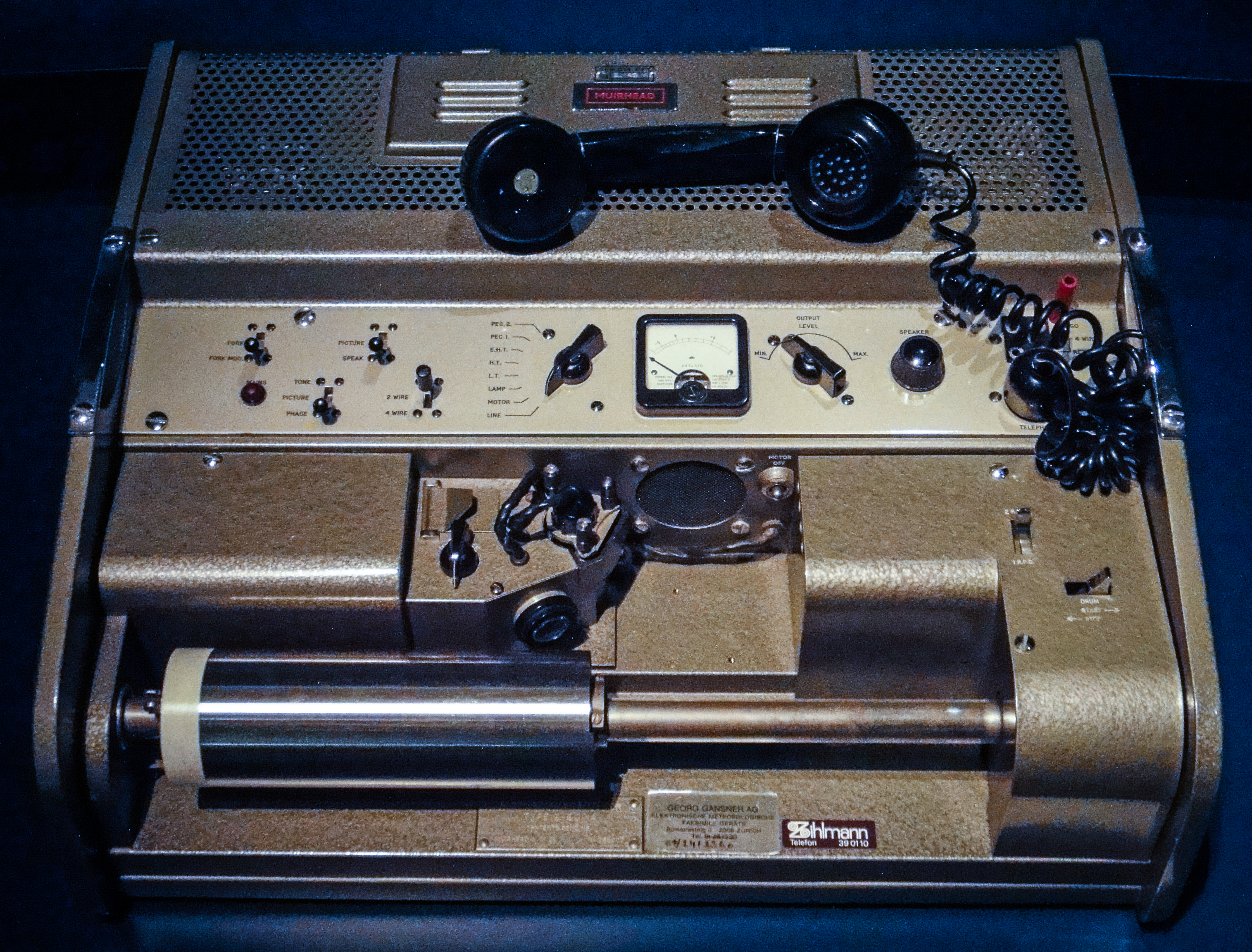 Fax machine by Alexander Muirhead, c. 1960.